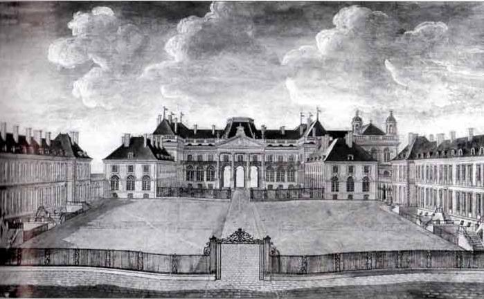 The château de Lunéville in the 18th century as the residence of the Dukes of Lorraine